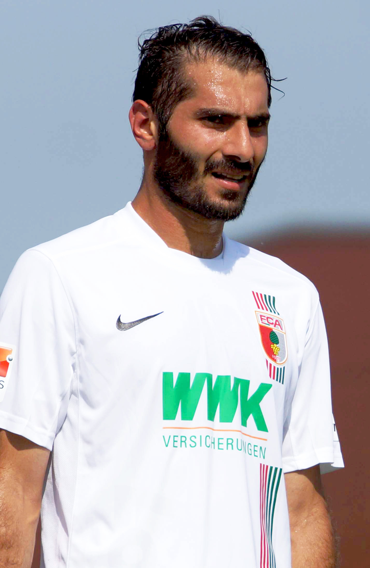 FC Augsburg